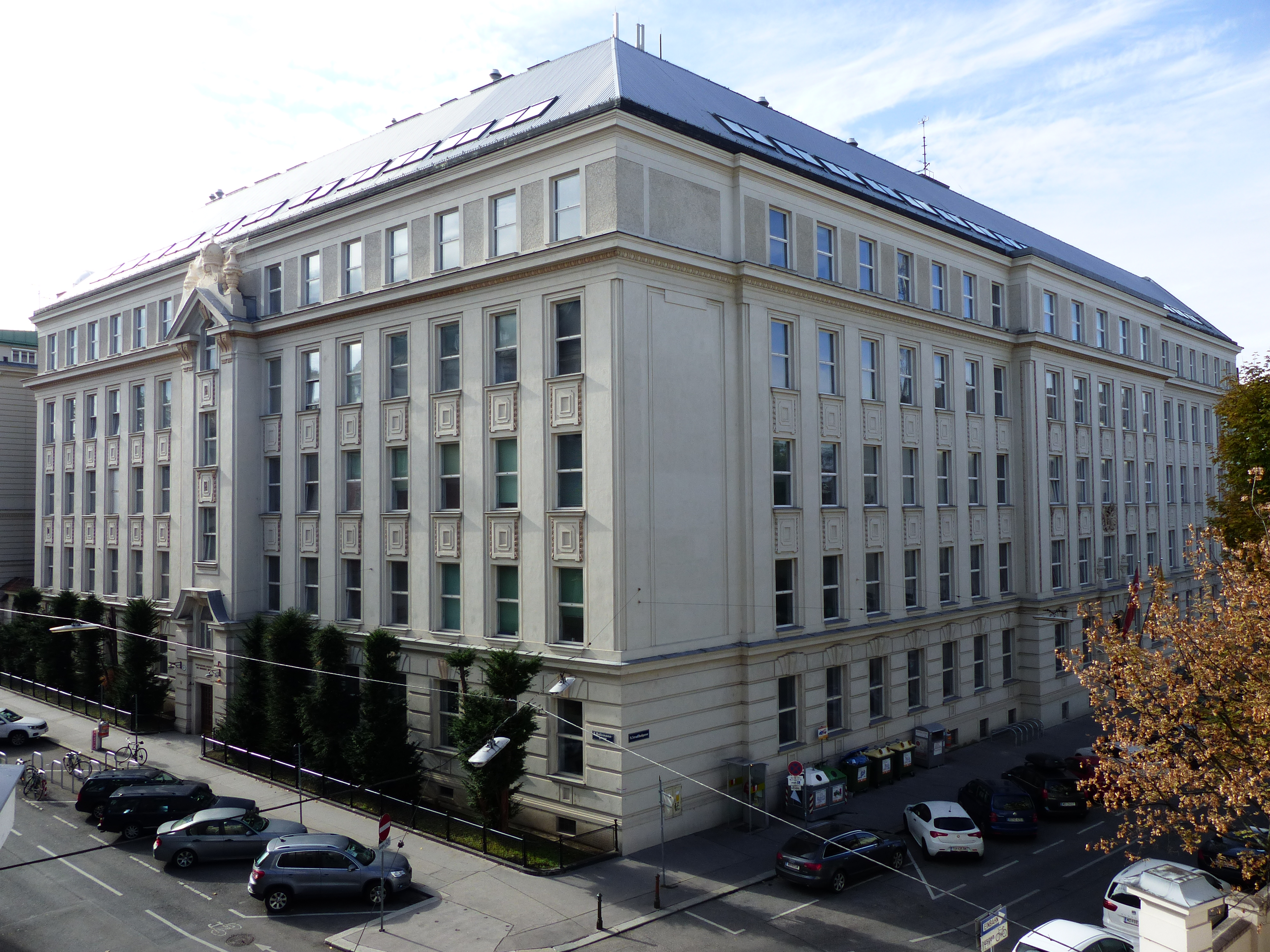 Faculty of Physics, University of Vienna